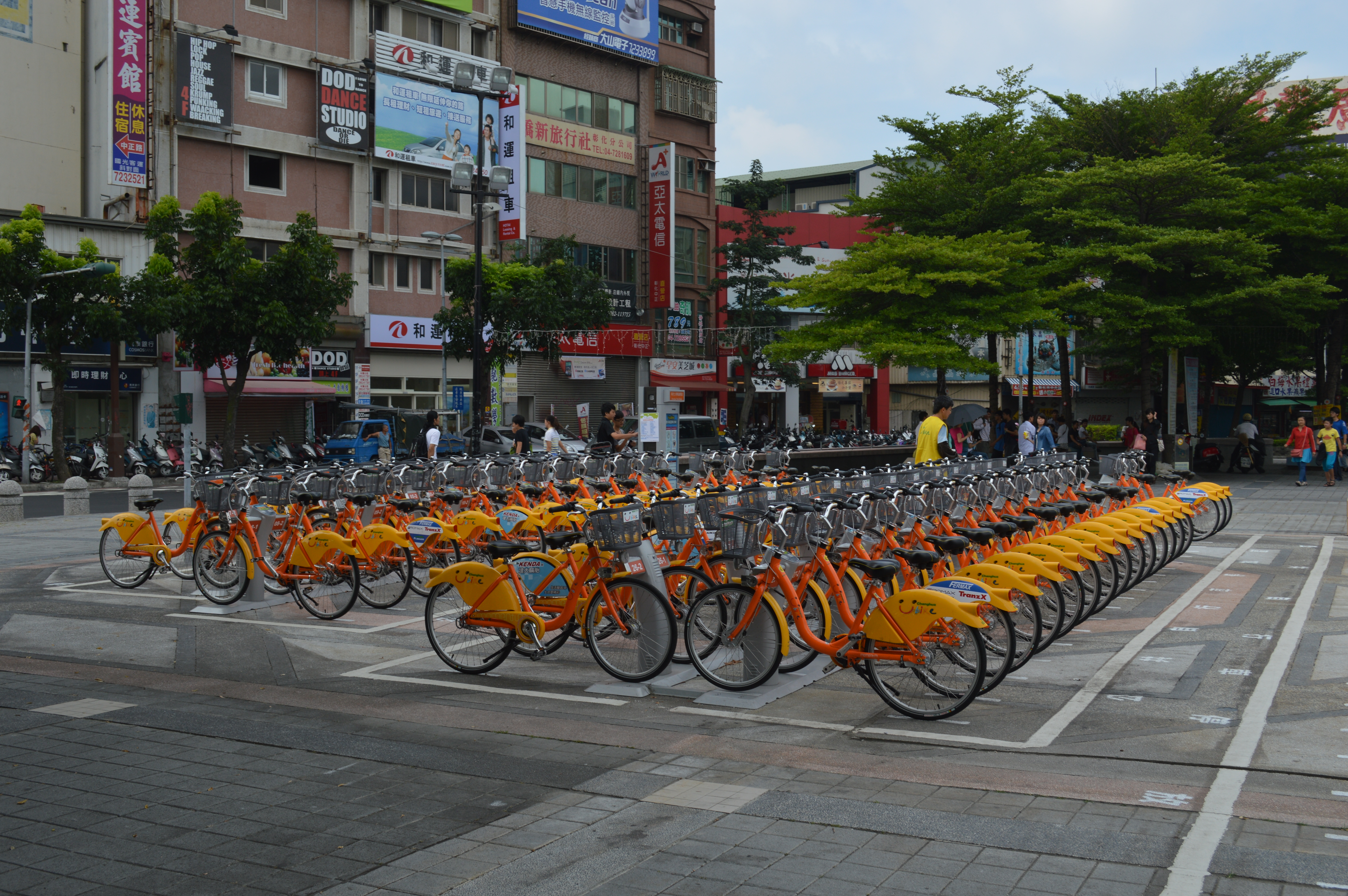 The Youbike station in Changhua Railway Station, Changhua City